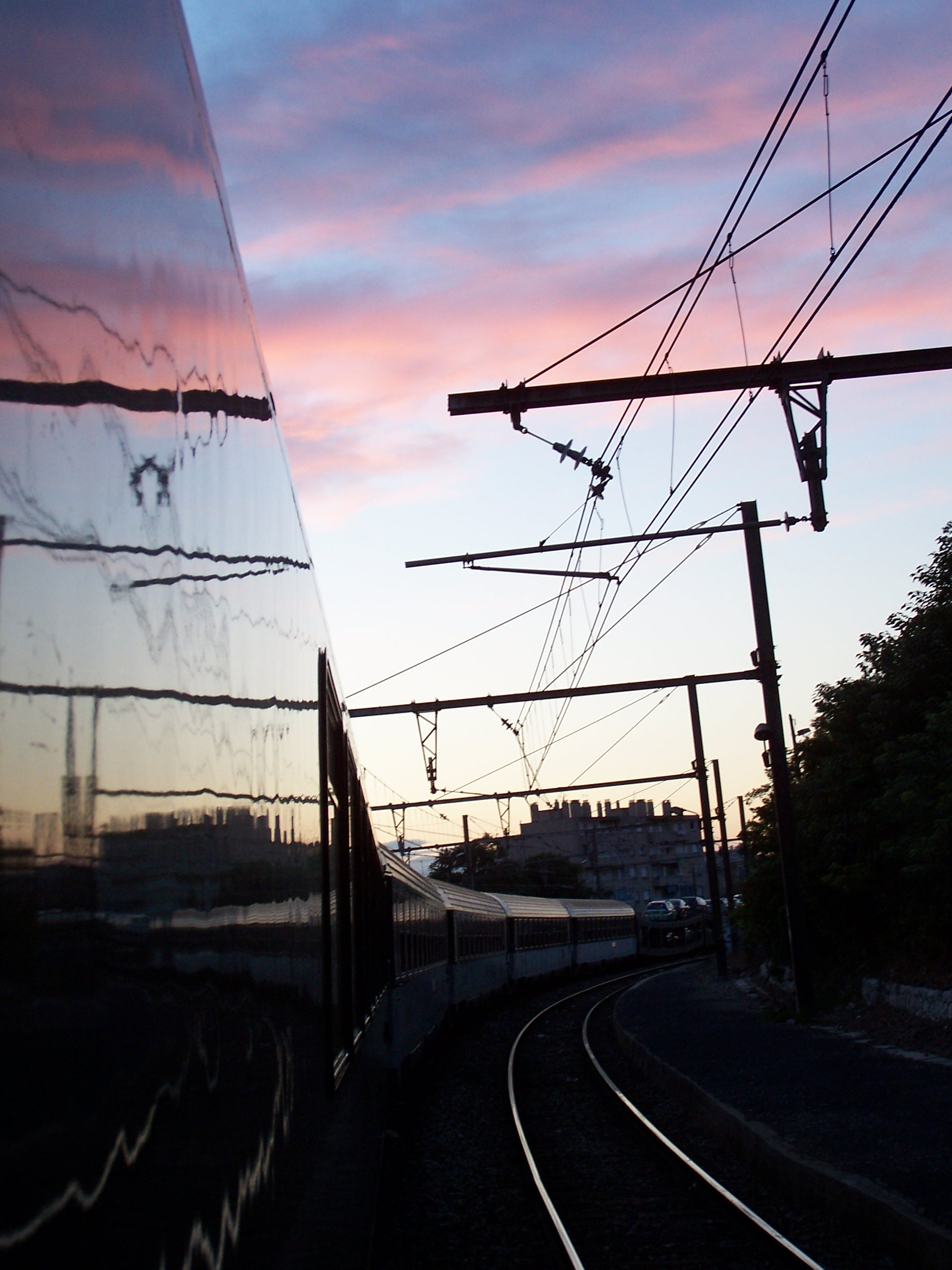 Rail Europe French Motorail, Marseille, Summer 2006. Author: David Postlethwaite (Motorail Rep)